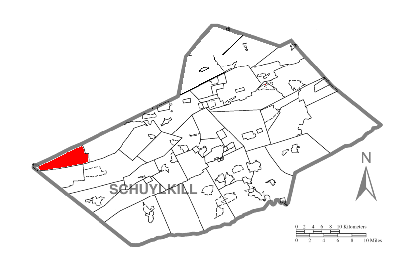 Map of Upper Mahantango Township